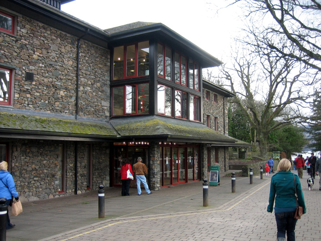 Theatre by the Lake and road down to the lake side, Keswick